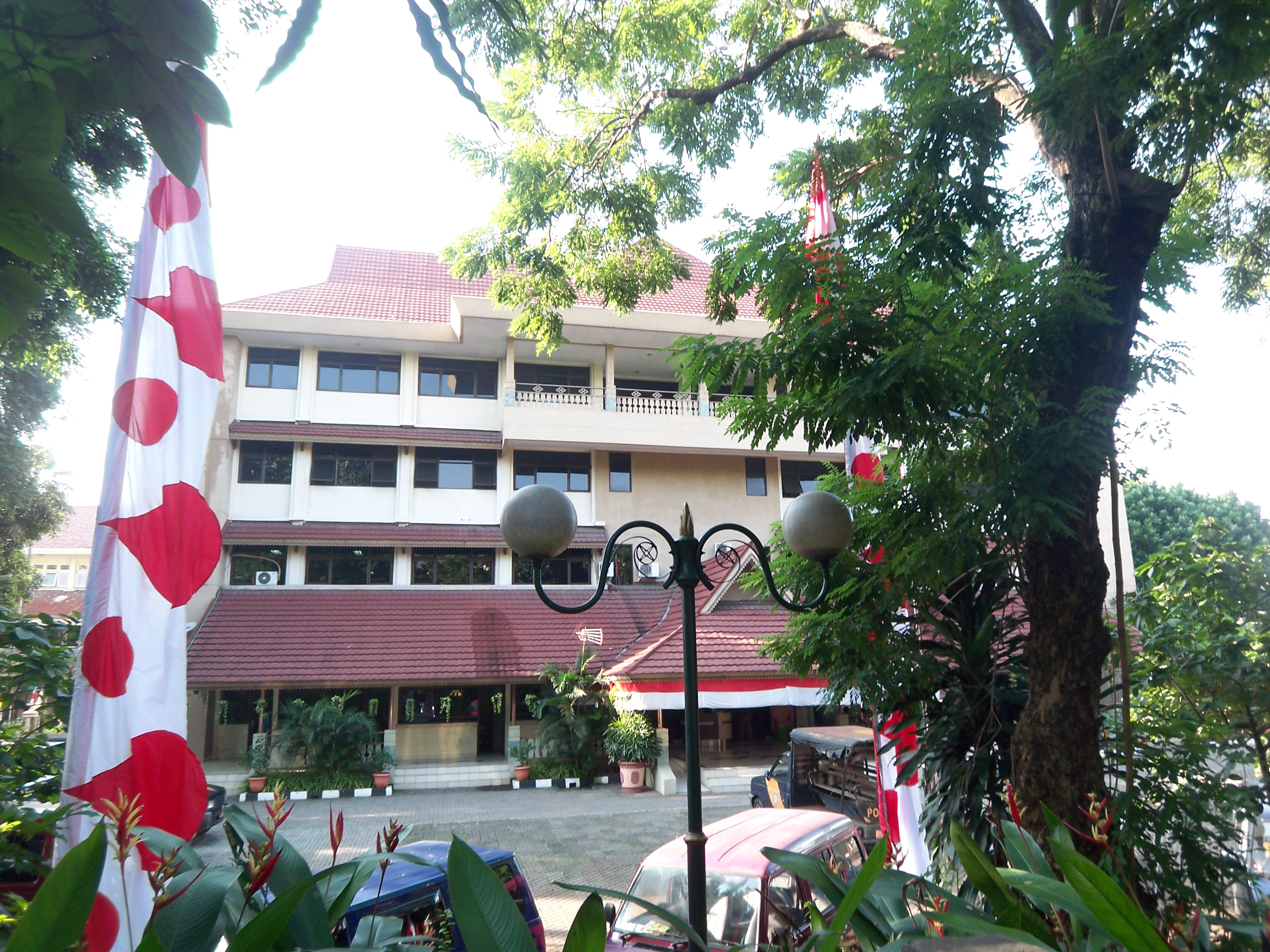 This is the building of Kantor Kecamatan Tebet, Jakarta Selatan, DKI Jaya, Indonesia